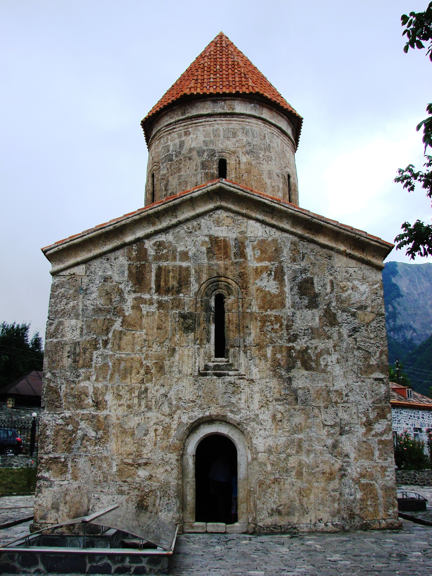 Front view of the church in the village of Kish in Azerbaijan.